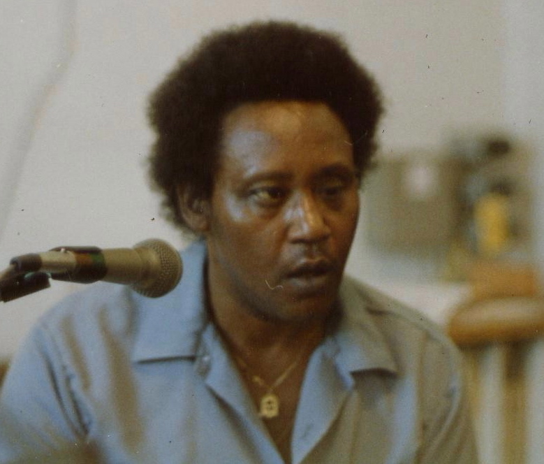 New Orleans: Singer, recording artist, and radio personality Bobby Mitchell at the WWOZ studio on Napoleon Avenue, early 1980s. Photo by Infrogmation. Another version of same photo with wider view not cropped out: Image:BobbyMitchellWWOZmike.jpg